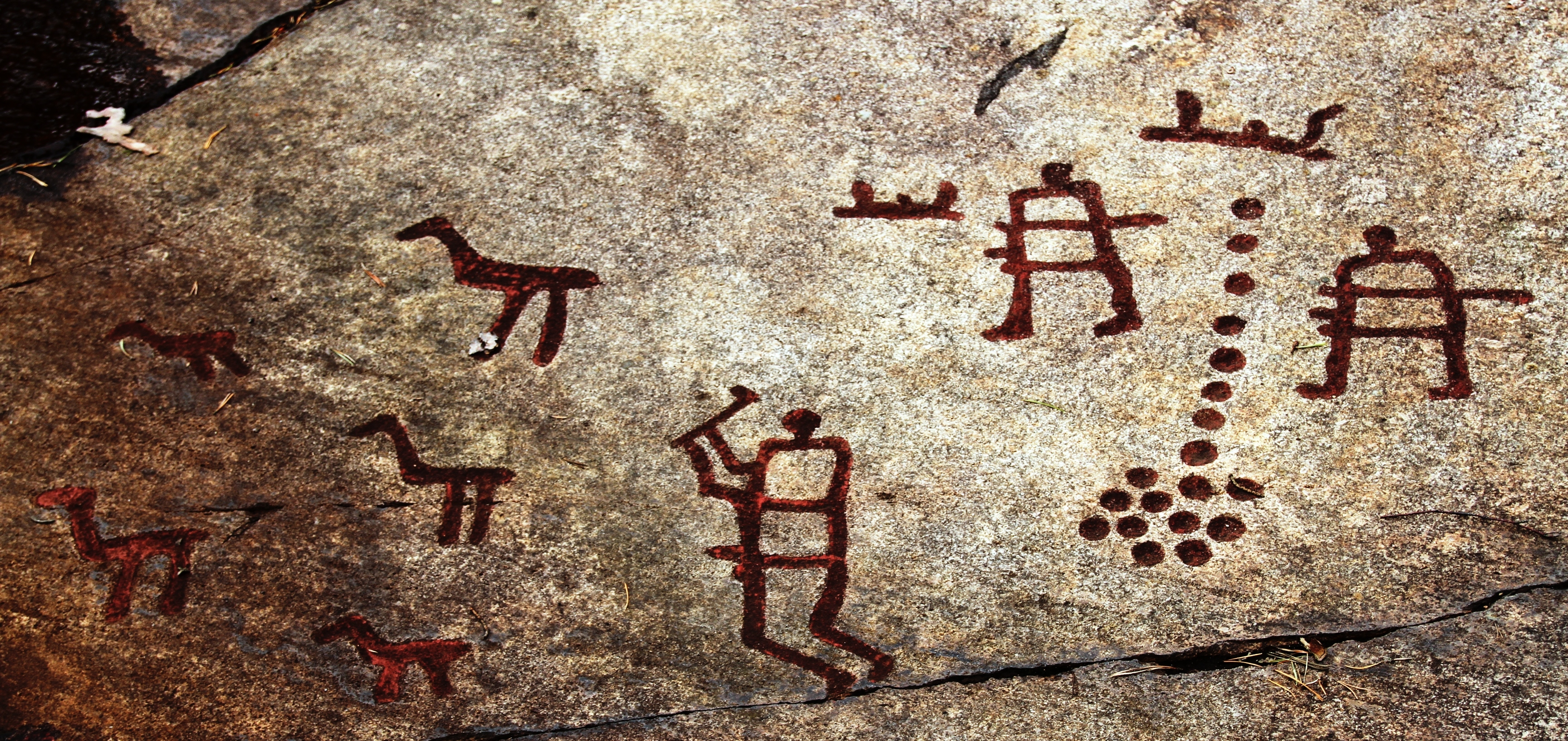 Image of the Bronze-Age Unesco worldheritage site in Tanumshede, western Sweden